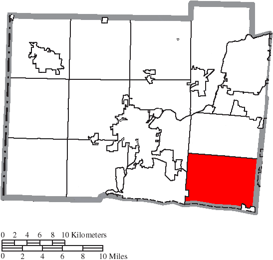 Map of the municipal and township boundaries of Butler County, Ohio, United States, as of the 2000 census, with the location of West Chester Township highlighted. Township borders are shown only in unincorporated areas in order to differentiate incorporated and unincorporated areas more clearly.